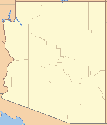 Locator Map of Arizona, United States